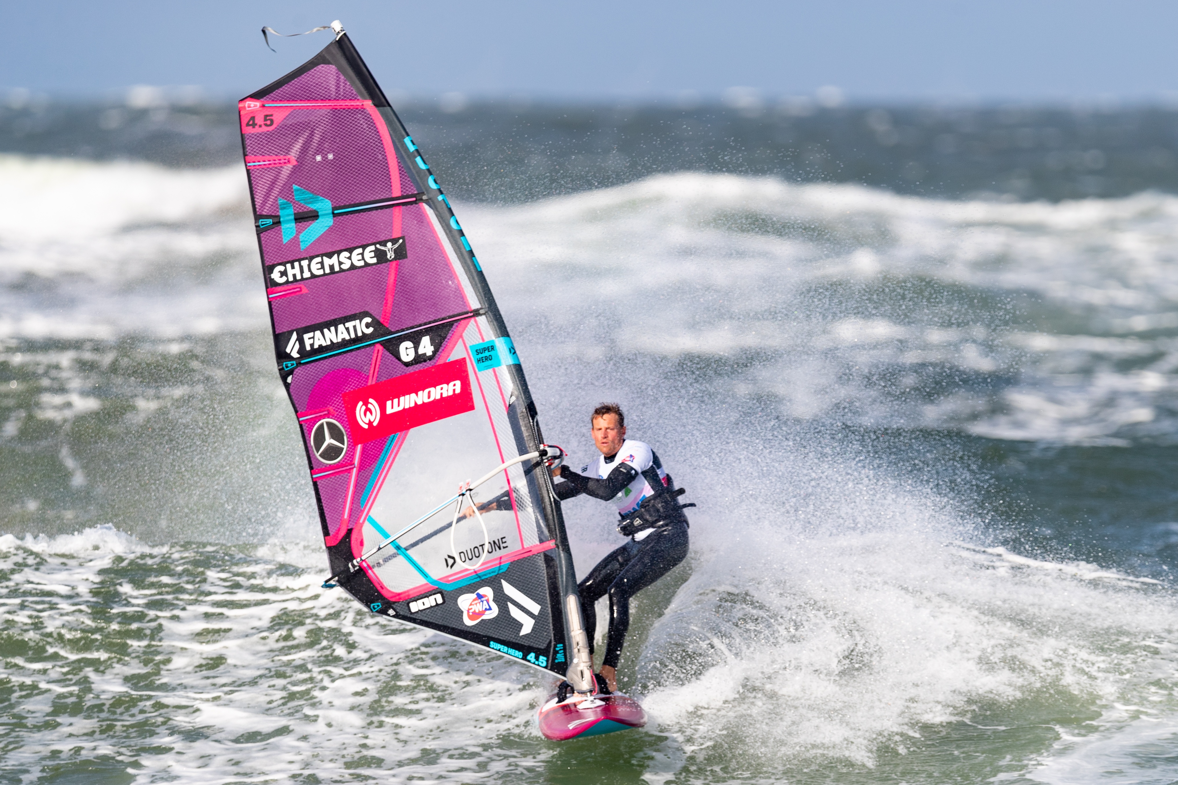 during Windsurf World Cup Sylt at Westerland, Sylt, Schleswig-Holstein, Germany on 2019-09-30, Photo: Sven Mandel